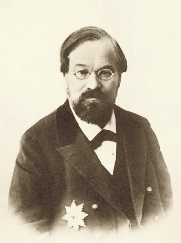 Portrait of Nikolai Bugaev (1837-1903), Russian mathematician and philosopher